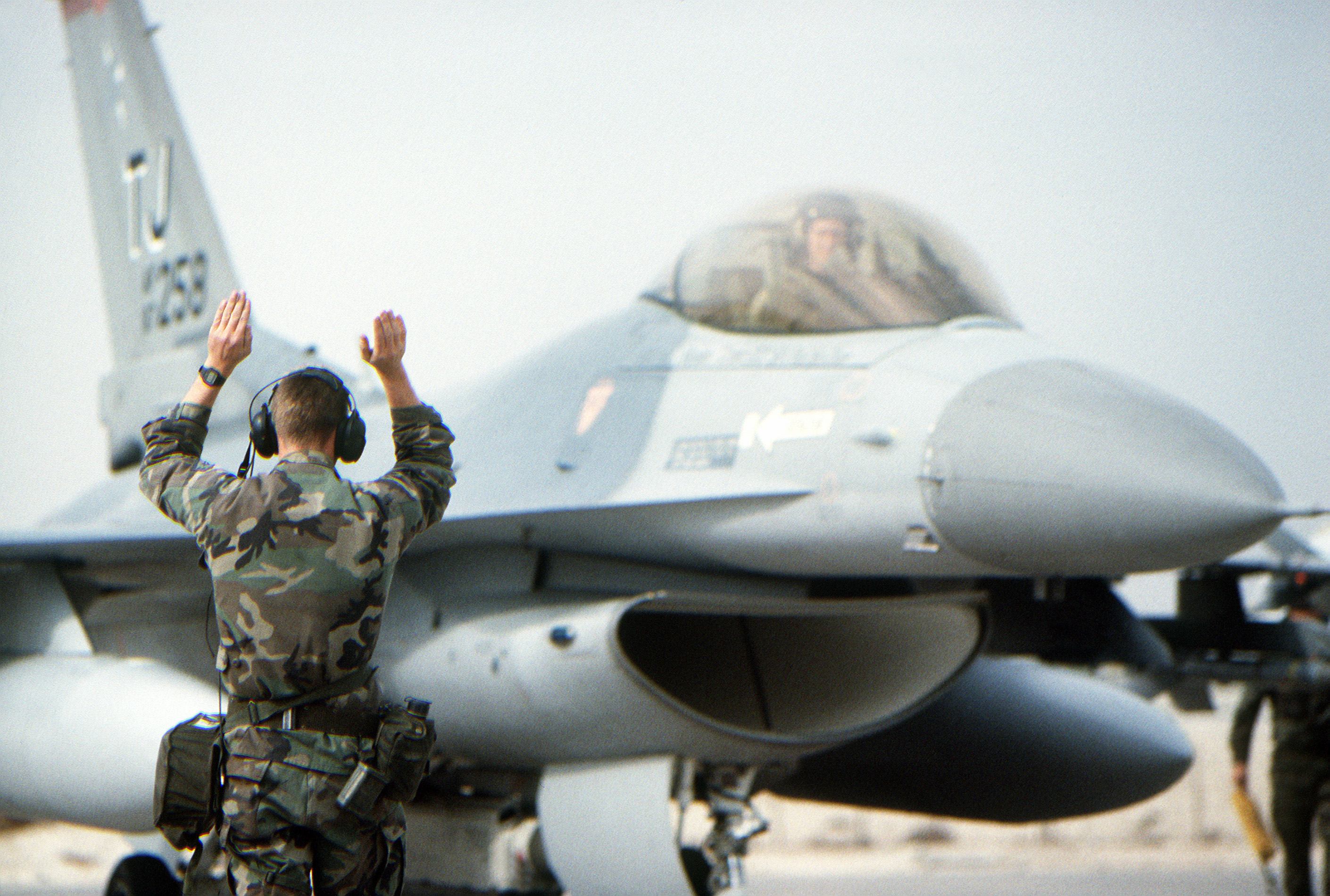 A ground crew member signals to the pilot of a 614th Tactical Fighter Squadron F-16C Fighting Falcon aircraft as it prepares to takeoff on the first daylight strike against Iraqi targets during Operation Desert Storm.